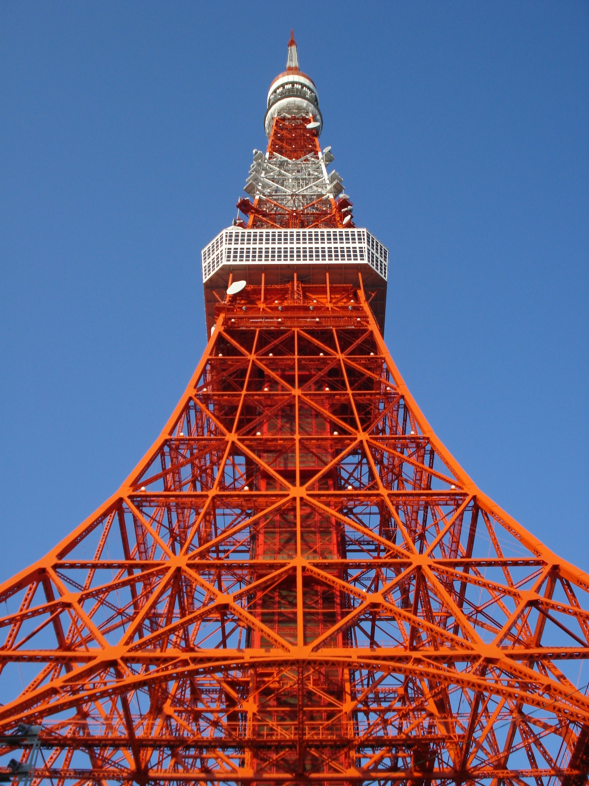 Tokyo tower